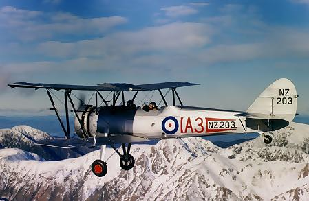 Original photograph taken by an employee of the British government. Image found on